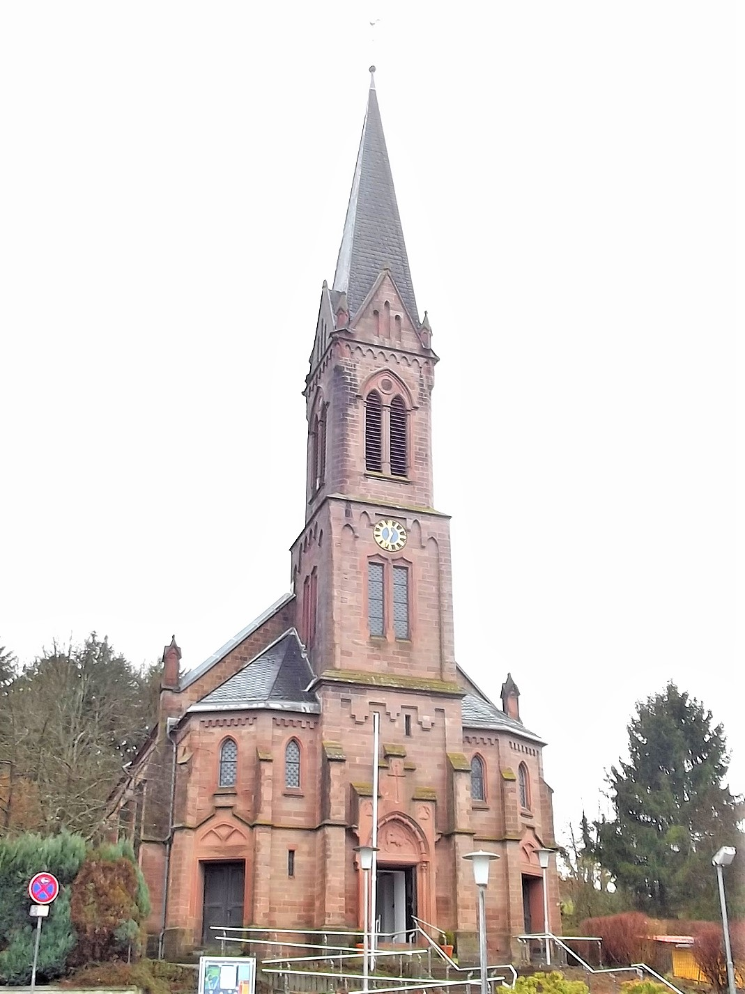 Exterior of the protestant church in Landsweiler-Reden, Saarland